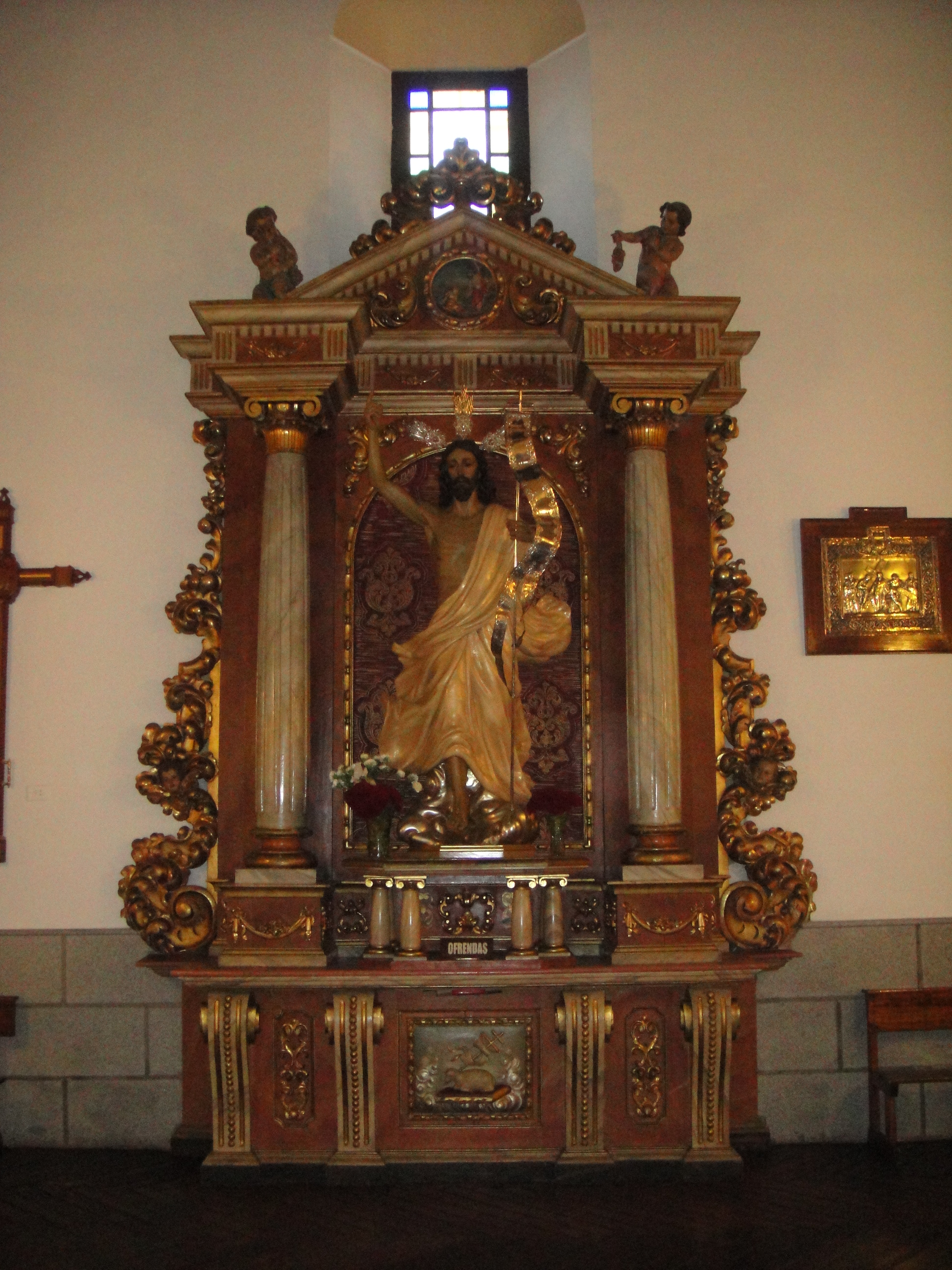 Church of St. Michael. Villanueva de Córdoba. (Spain).